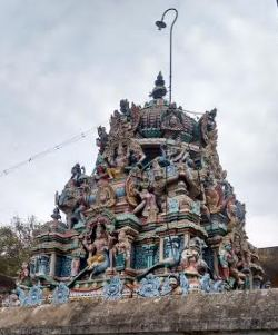 Thanjavurpookkarastreetmurugantemple தஞ்சாவூர் பூக்காரத்தெரு முருகன் கோயில்